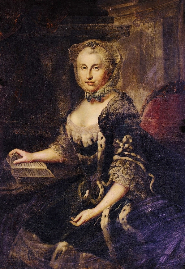 Portrait of Princess Augusta of Great Britain (1737-1813), duchess of Brunswick-Lüneburg